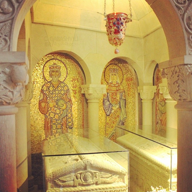 saint #king #queen #grave #Georgia #old #samtavro #monastery #mosaic #beautiful #myphoto #photoshare_everything #insta_global #instagold #instadaily #instaglobal #mtskheta #instalove #love